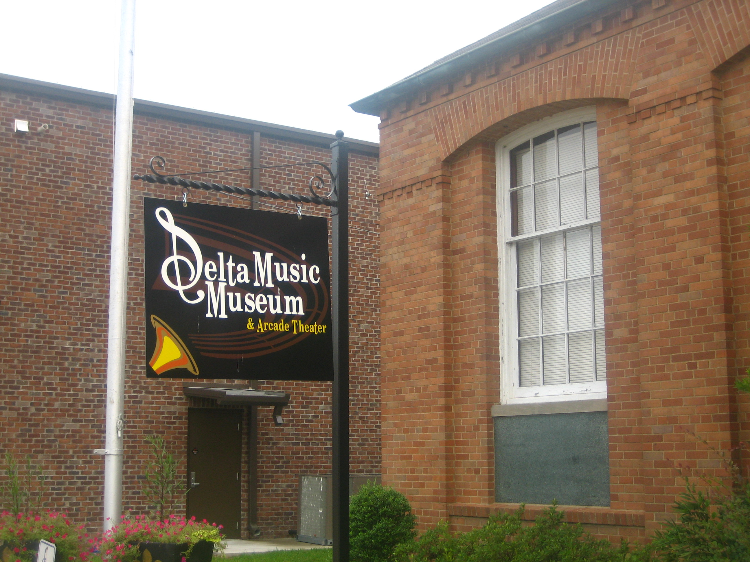 I took photo on Aug. 1, 2008.Billy Hathorn (talk) 04:51, 20 August 2008 (UTC)